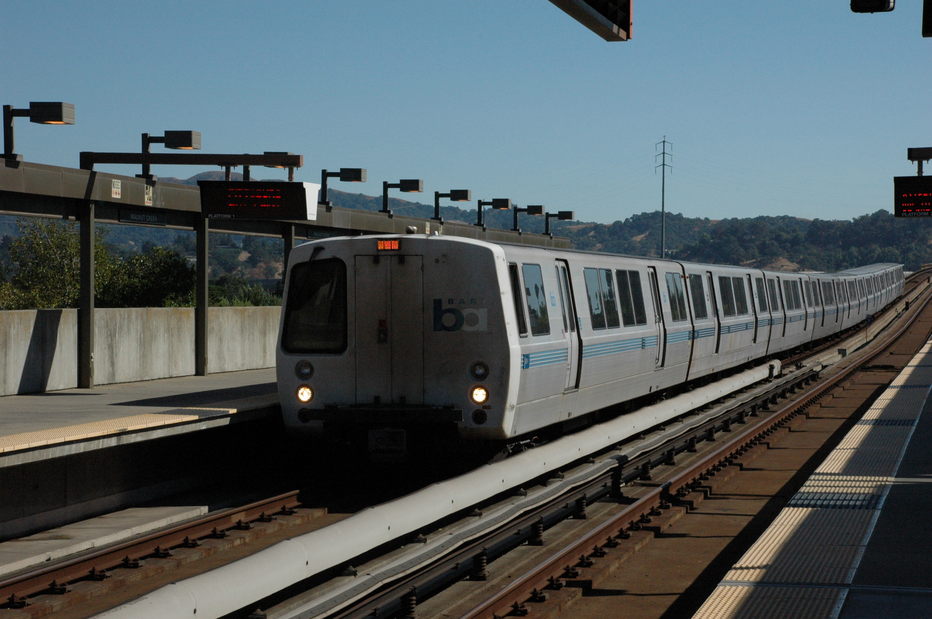 The BART system